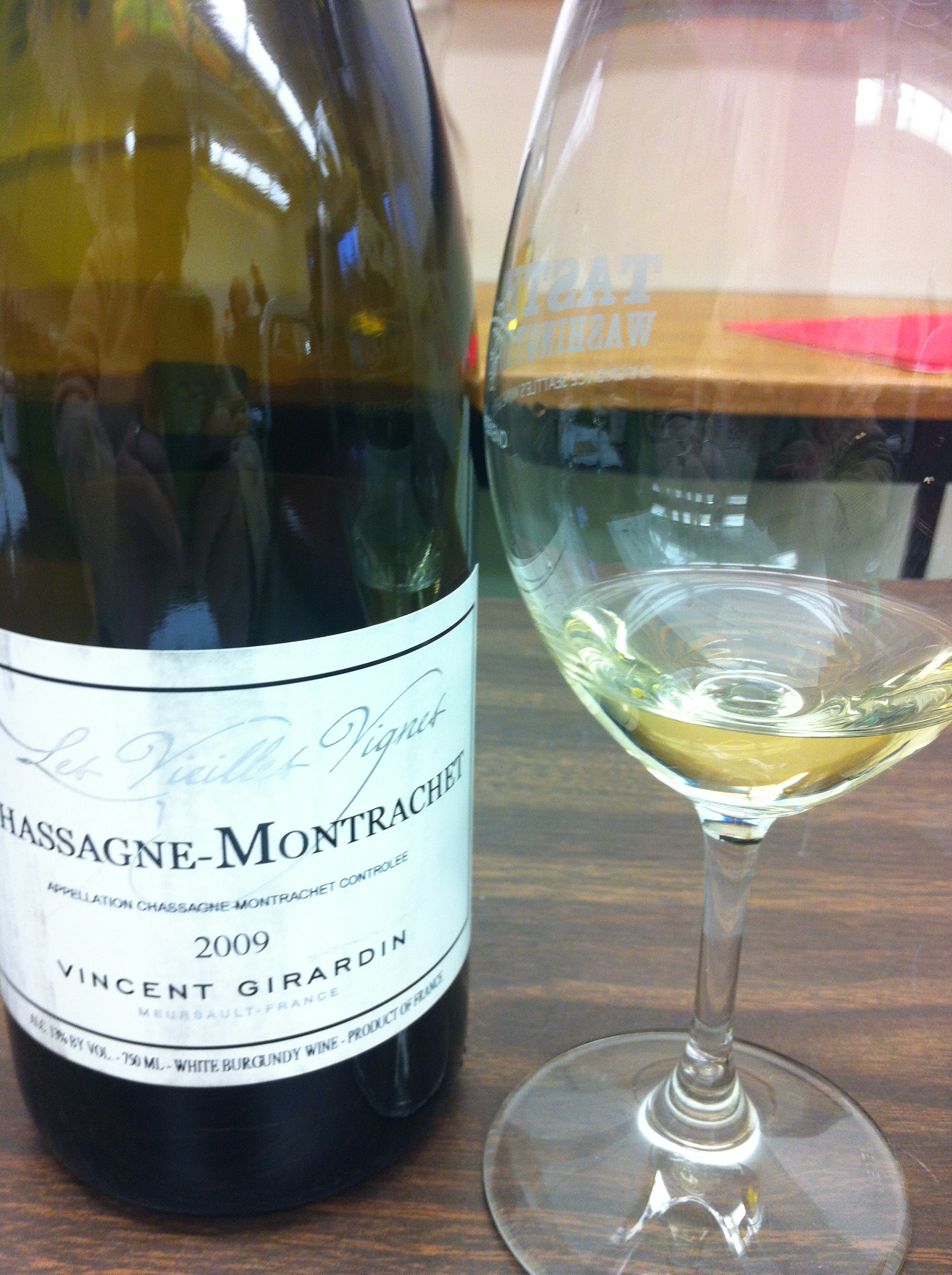 French Chardonnay wine from the Chassagne-Montachet AOC of Burgundy